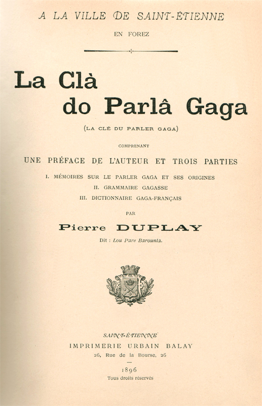 Title page of an Arpitan/Franco-Provençal - French dictionary, in arpitan dialect from Saint Etienne in France called "Gaga".